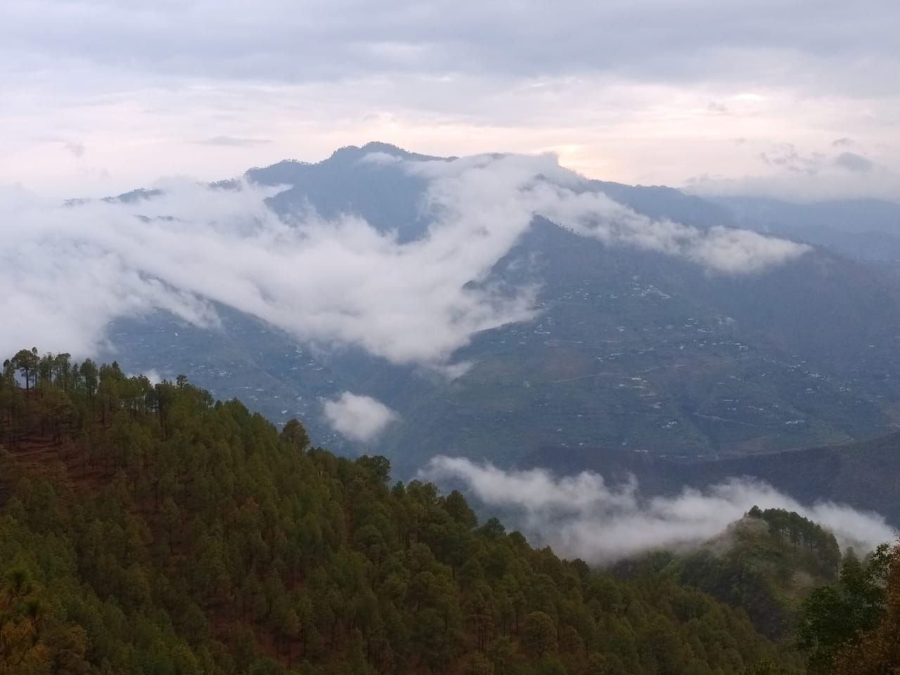 Lee Village